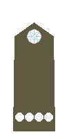 Rang insignia of the Czech Republic Army (rank group: NCOs), here shoulder strap of the "Rotny/ Corporal" – Army/ ground forces (OR-4, since 2011).